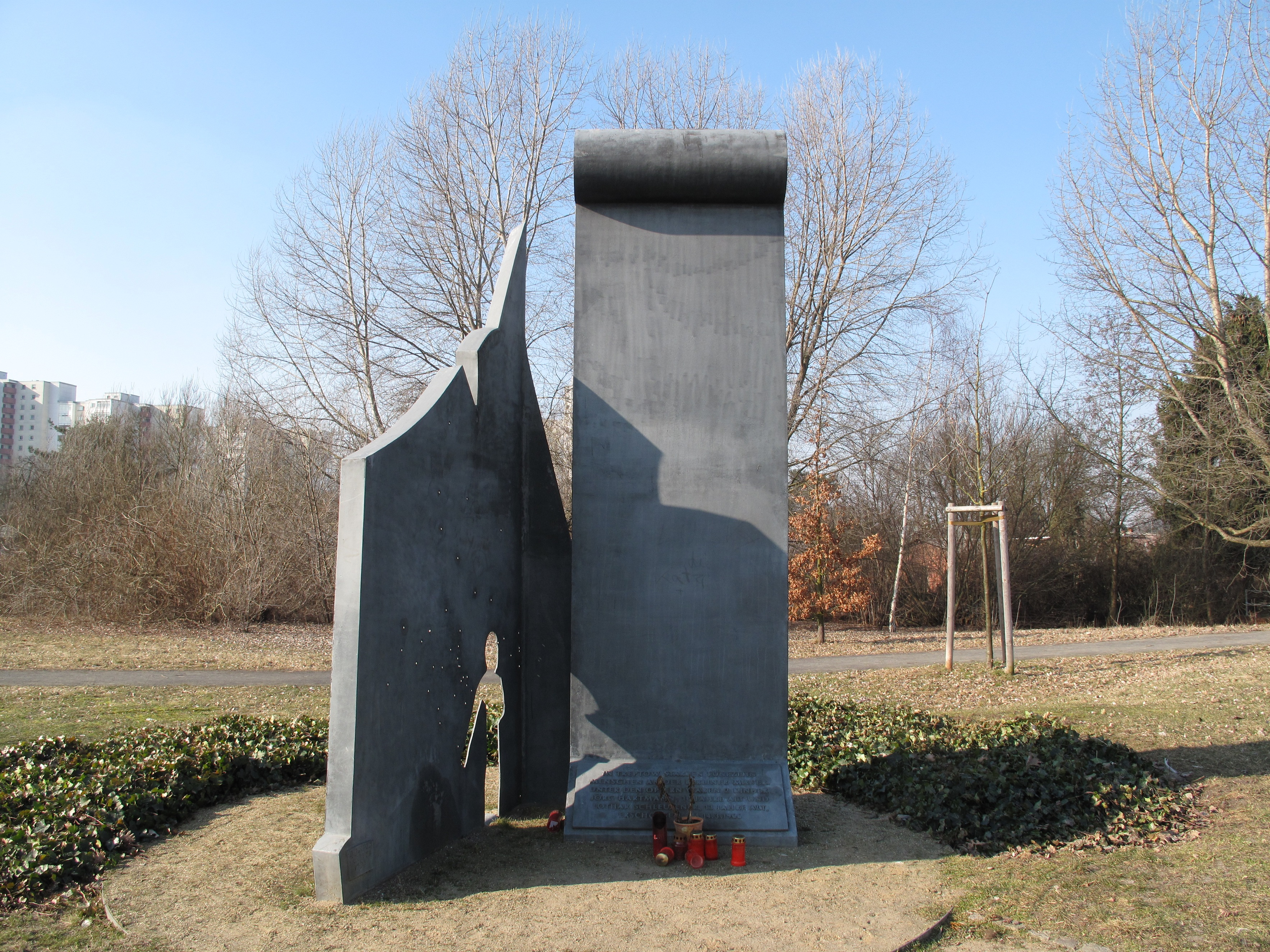 Monument to 15 victims from Berlin-Treptow, who were killed at the Berlin Wall. Location: Green space Heidekampgraben/corner Kiefholzstraße, where two boys were shot. The inscription reads: In Treptow starben fünfzehn Menschen an der Berliner Mauer. Unter den Opfern waren 2 Kinder. Jörg Hartmann, 10 Jahre alt und Lothar Schleusener, 13 Jahre alt, erschossen am 14.3.1966.. The monument was created in 1999 by Rüdiger Roehl with Jan Skuin. The Heidekampgraben is a drainage channel in the localities Neukölln in the borough Berlin-Neukölln and Baumschulenweg, Plänterwald und Alt-Treptow in the borough Treptow-Köpenick. The channel connects the Britzer Verbindungskanal with the river Spree. During the years of the German separation a part of the Heidekampgraben marked the inner German border between West- and East-Berlin. After the fall of the Berlin Wall there was installed the green space Heidekampgraben (german: „Grünzug Heidekampgraben“) over a length of 2,5 kilometres.